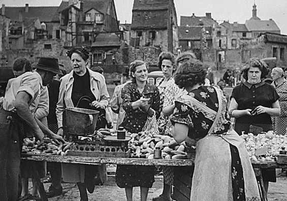 ARC Identifier: 541687 Saarbruecken, France. Market day in Saarbruecken, the Saar's capital. The Saar is the most densly populated area in Europe, with 430 people per square kilometer. Of one year's consumption of food only a six-week supply can be grown in the Saar. Most Saarlaenders grow at least some of their own food on a plot of land. There are 38,497 such farm plots in the little Saar state , ca. 1948 - ca. 1955